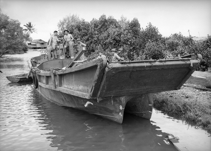 One of the Japanese invasion barges used in their abortive landing attempt at Milne Bay, now salvaged and put into use by Australian engineers.